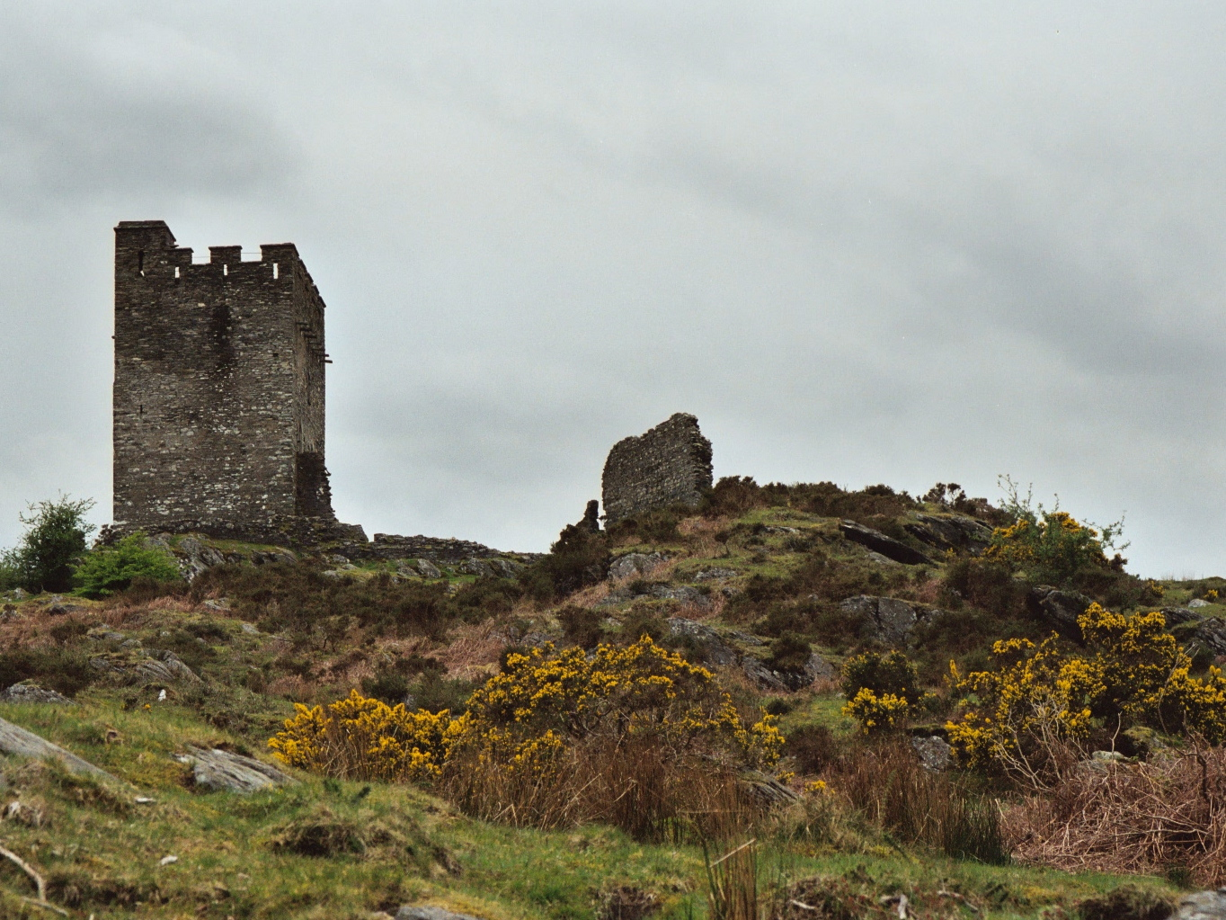 Dolwyddelan castle was built by Llywelyn; the old castle nearby may have been his birthplace.